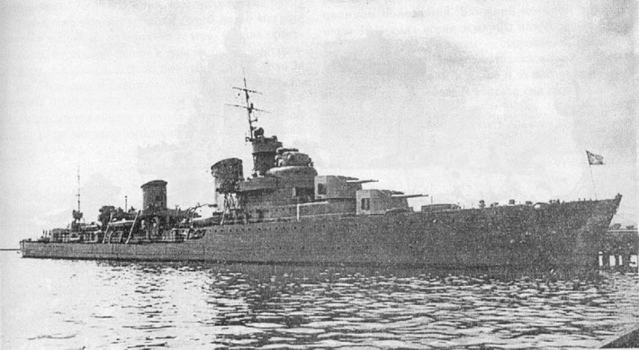 Soviet type 20 Leader of Destroyers «Tashkent»